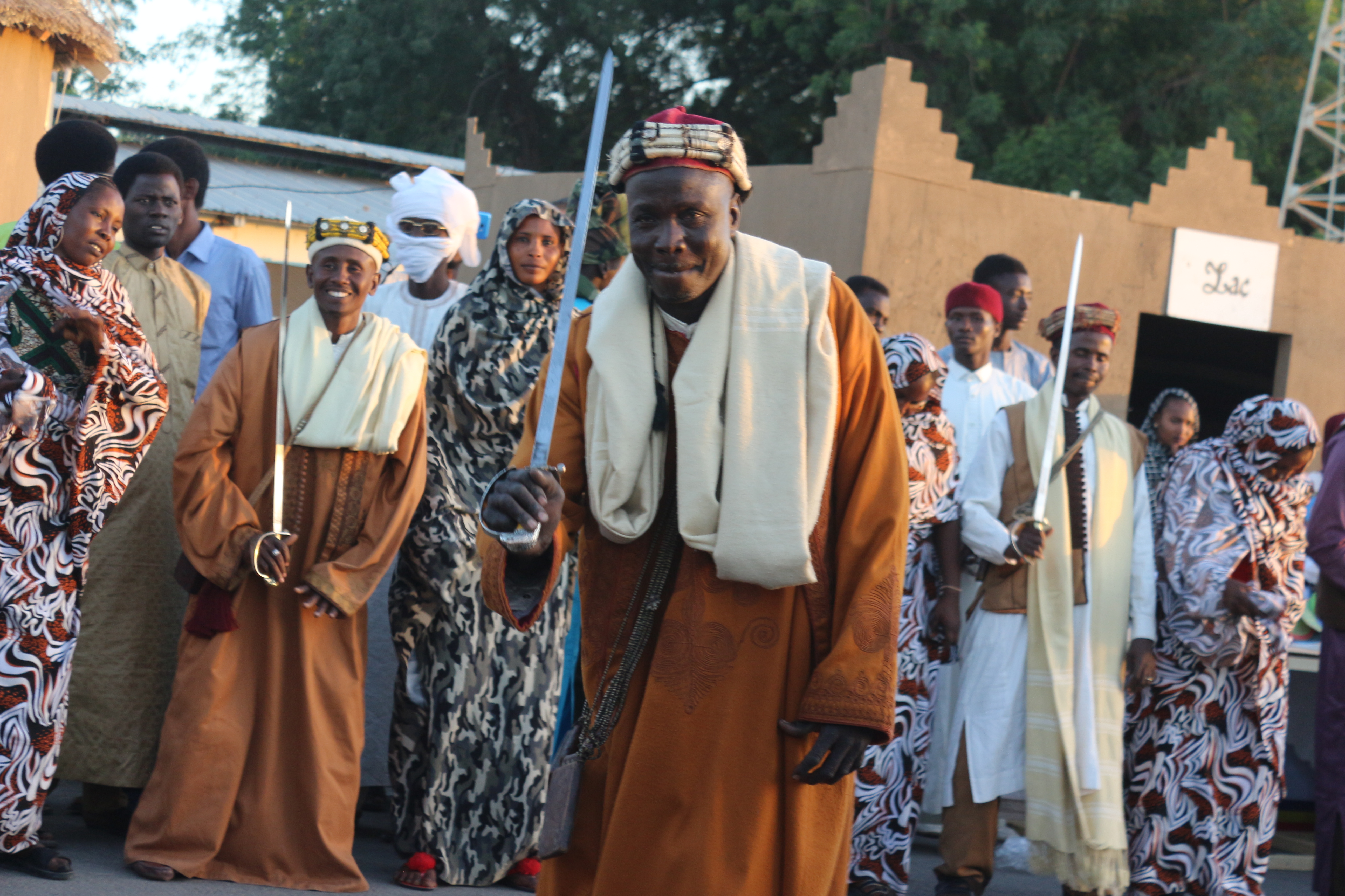 Danseur du Kanem lors de la 2ème édition du Festival Dary au Tchad.